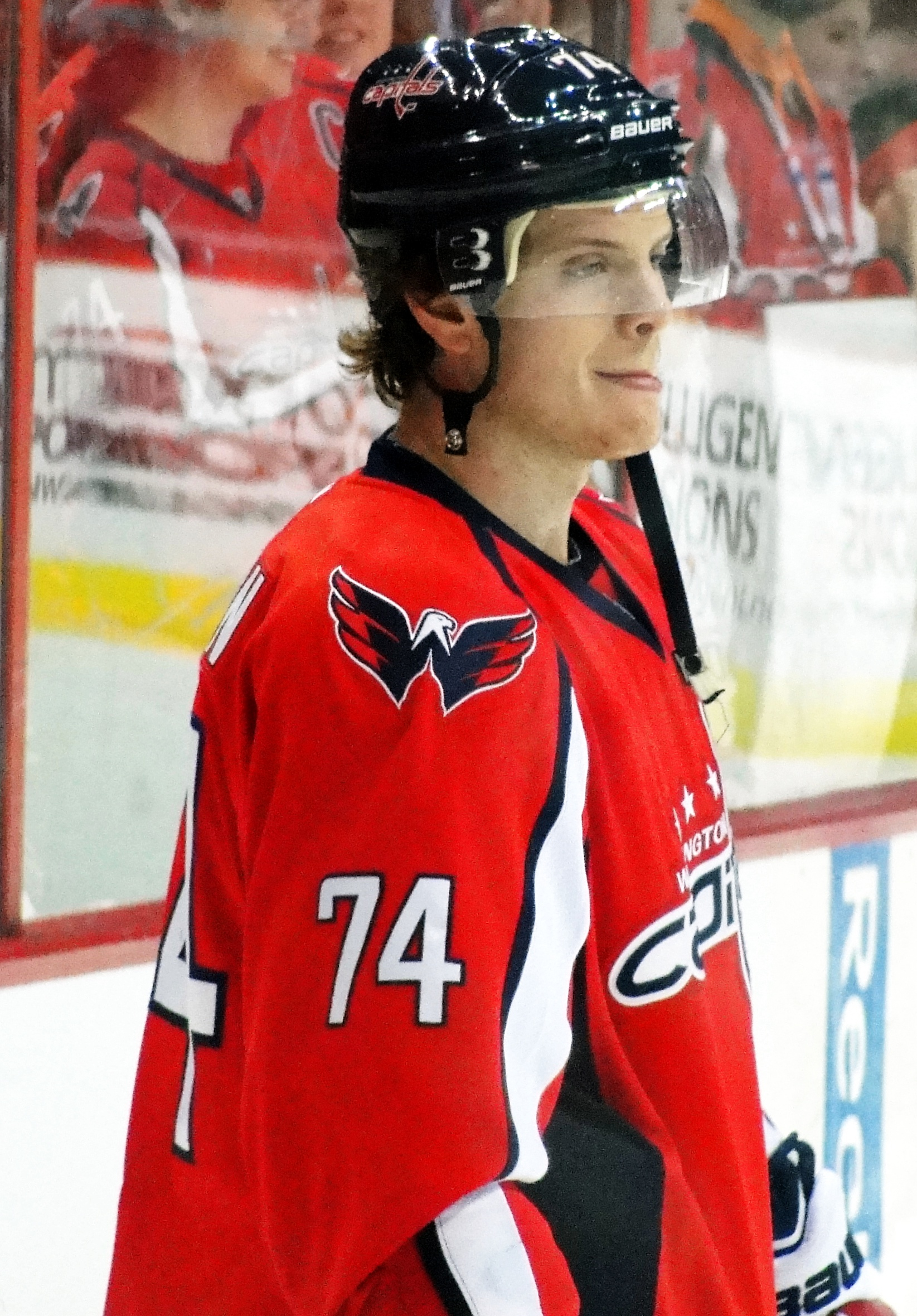 John Carlson of the Washington Capitals prior to a January 11, 2012 game against the Pittsburgh Penguins at Verizon Center in Washington, D.C. From PensAreYourDaddy